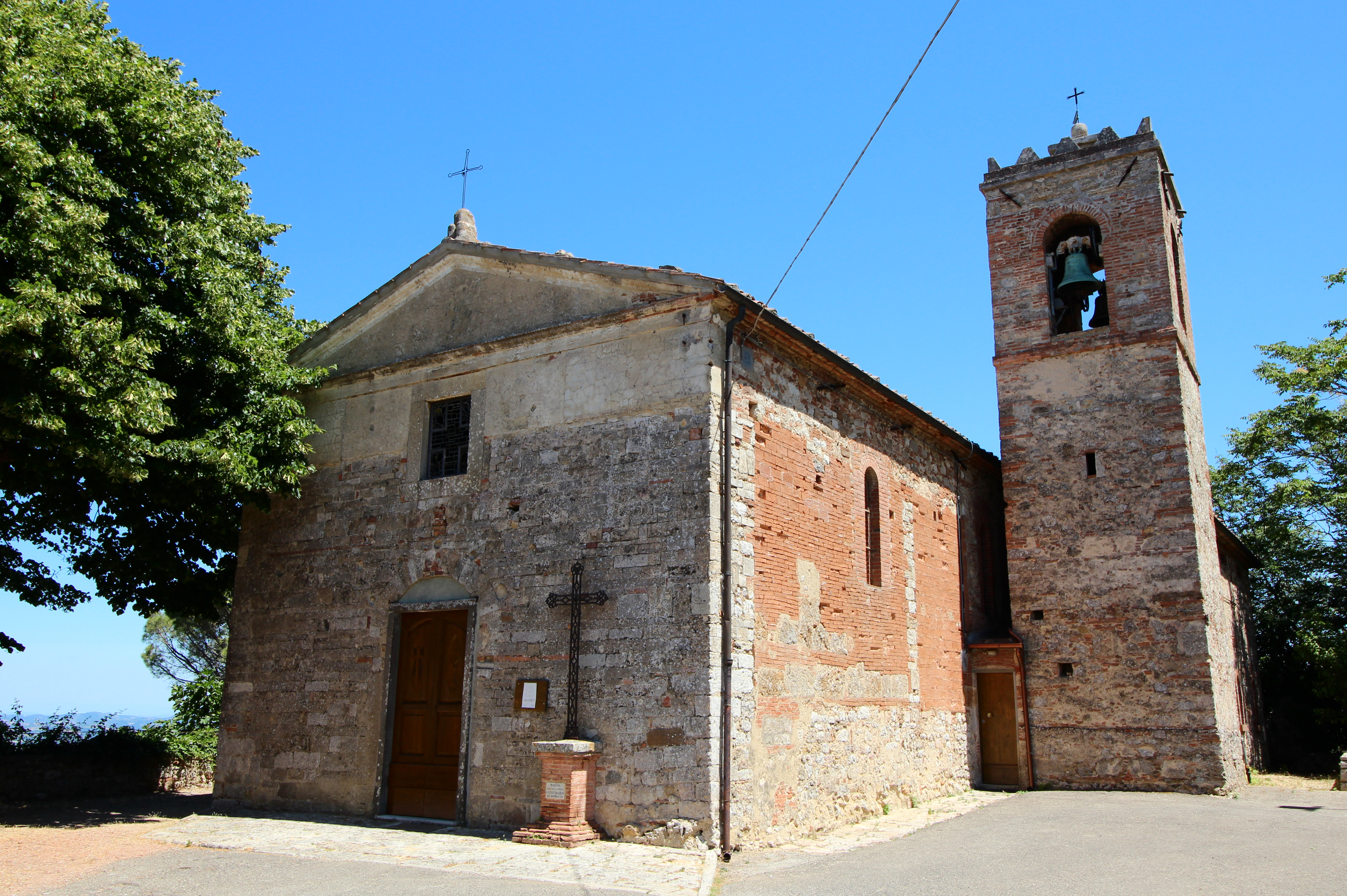 Church Santi Quirico e Giulitta, in Parlascio, hamlet of Casciana Terme Lari, Province of Pisa, Tuscany, Italy